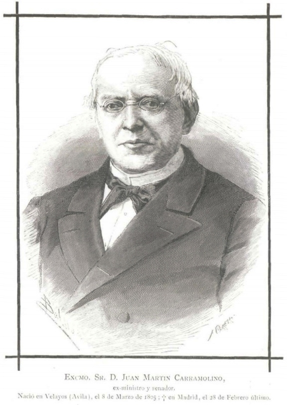 Spanish Politician Juan Martín Carramolino